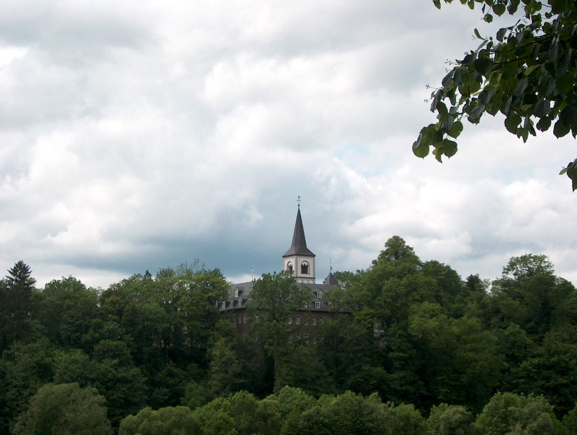 Monastery Kloster Merten in Eitorf